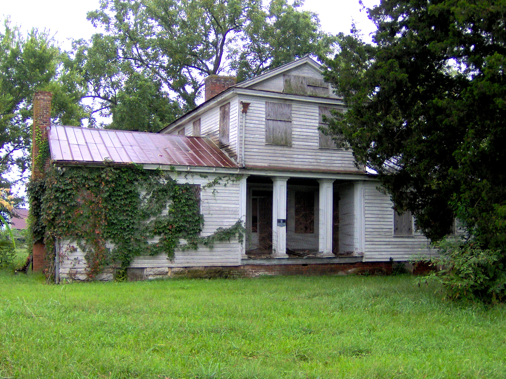 The plantation house at Rose Glen, near the U.S. city of Sevierville, Tennessee. Built in 1850, the house and a few surviving outbuildings are located at the junction of TN-416 and Old Newport Highway, across the street from Walters State Sevier County Campus.